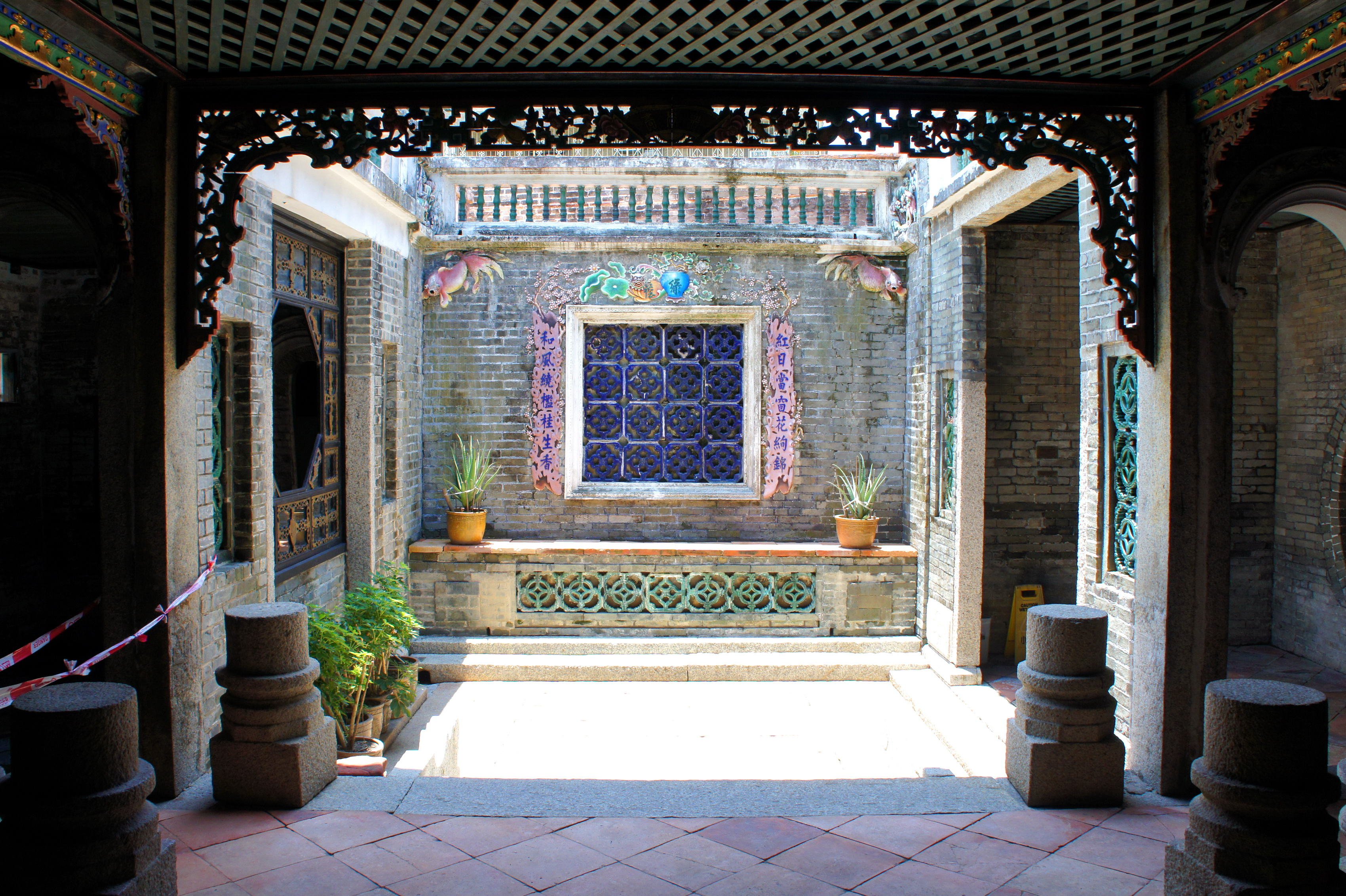 Ching Shu Hin, Ping Shan, Yuen Long, Hong Kong.中文（香港）: 坐落於香港元朗屏山的清暑軒。